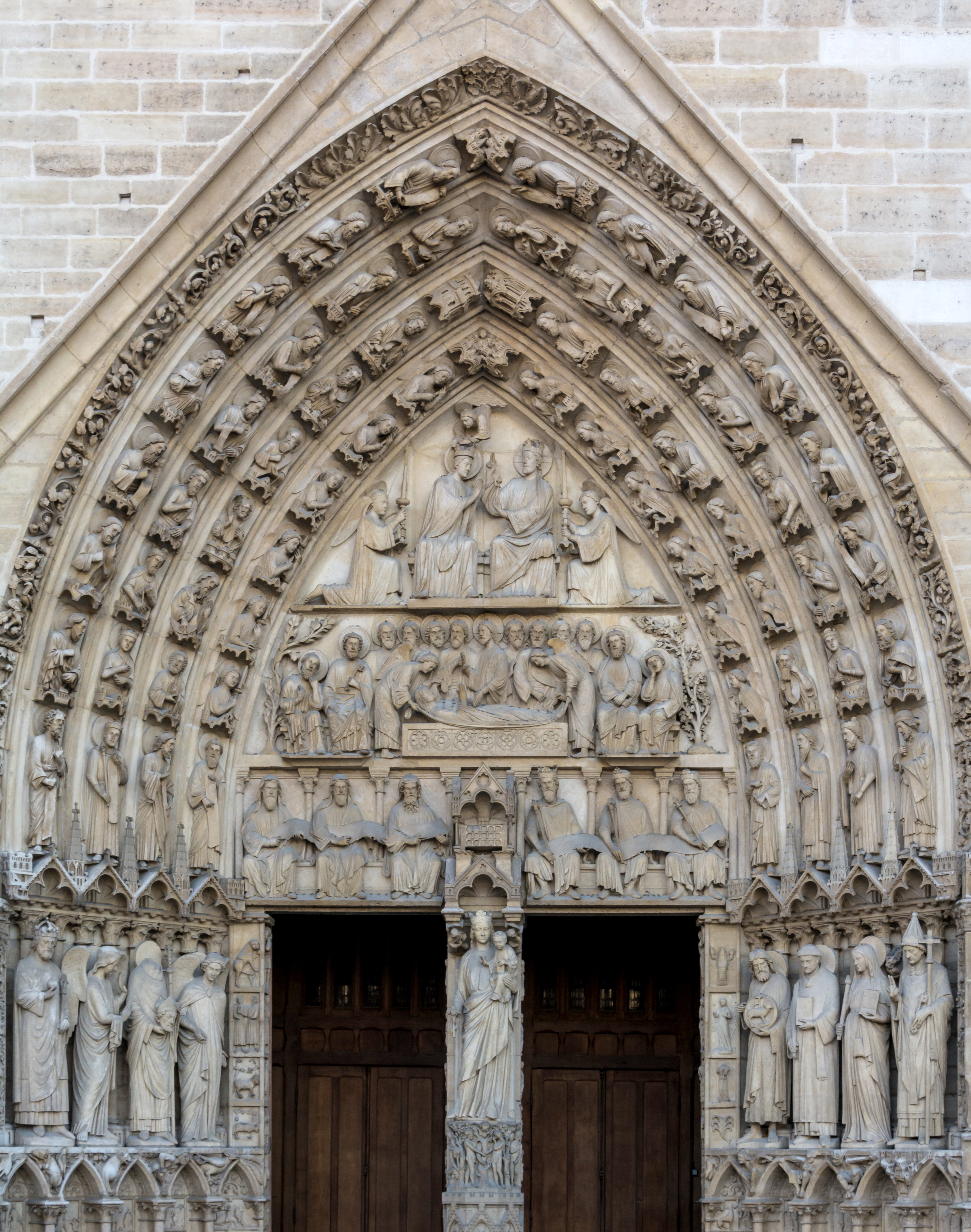 Portal of the Virgin (Portail de la Vierge) of cathedral Notre-Dame de Paris, France